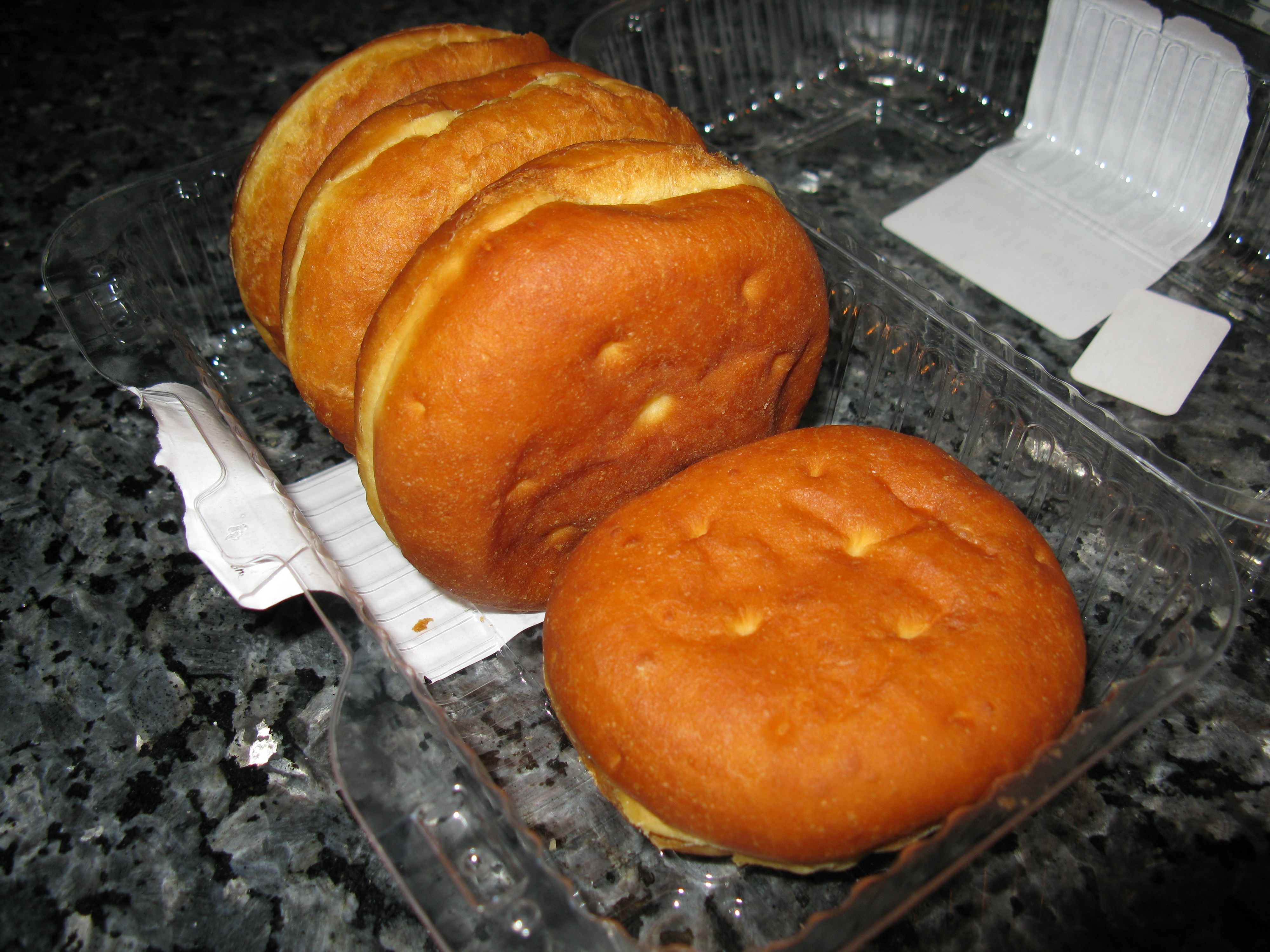 Fasnachts from Pennsylvania Deitsch: Faasnachtkuchen vum Pennsilfaani